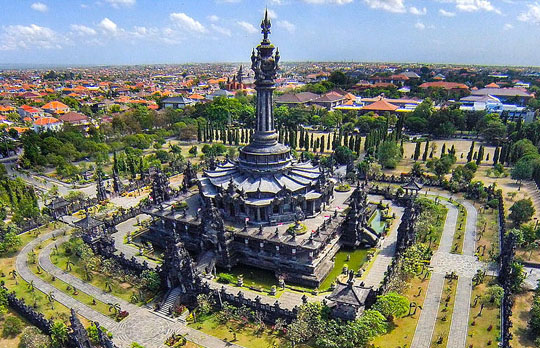 Bajra Sandi